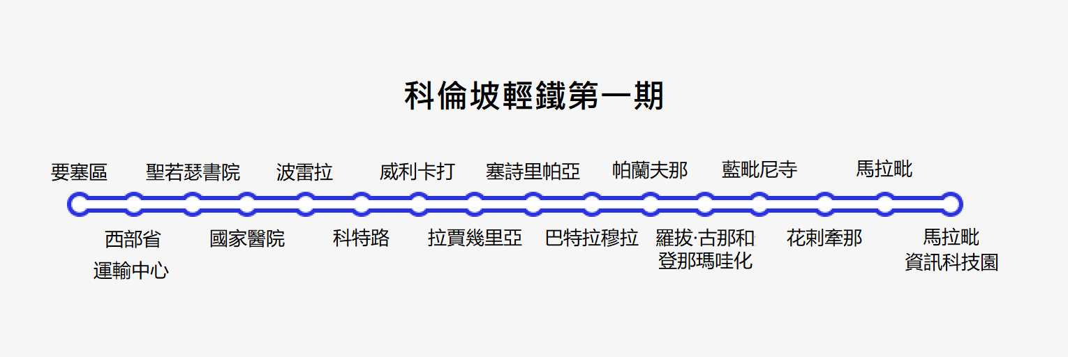 Map of Phase 1 of the Colombo Light Rail as at 6 February 2018 (in Chinese)